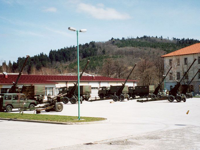 Vojašnica Baron Andrej Čehovin